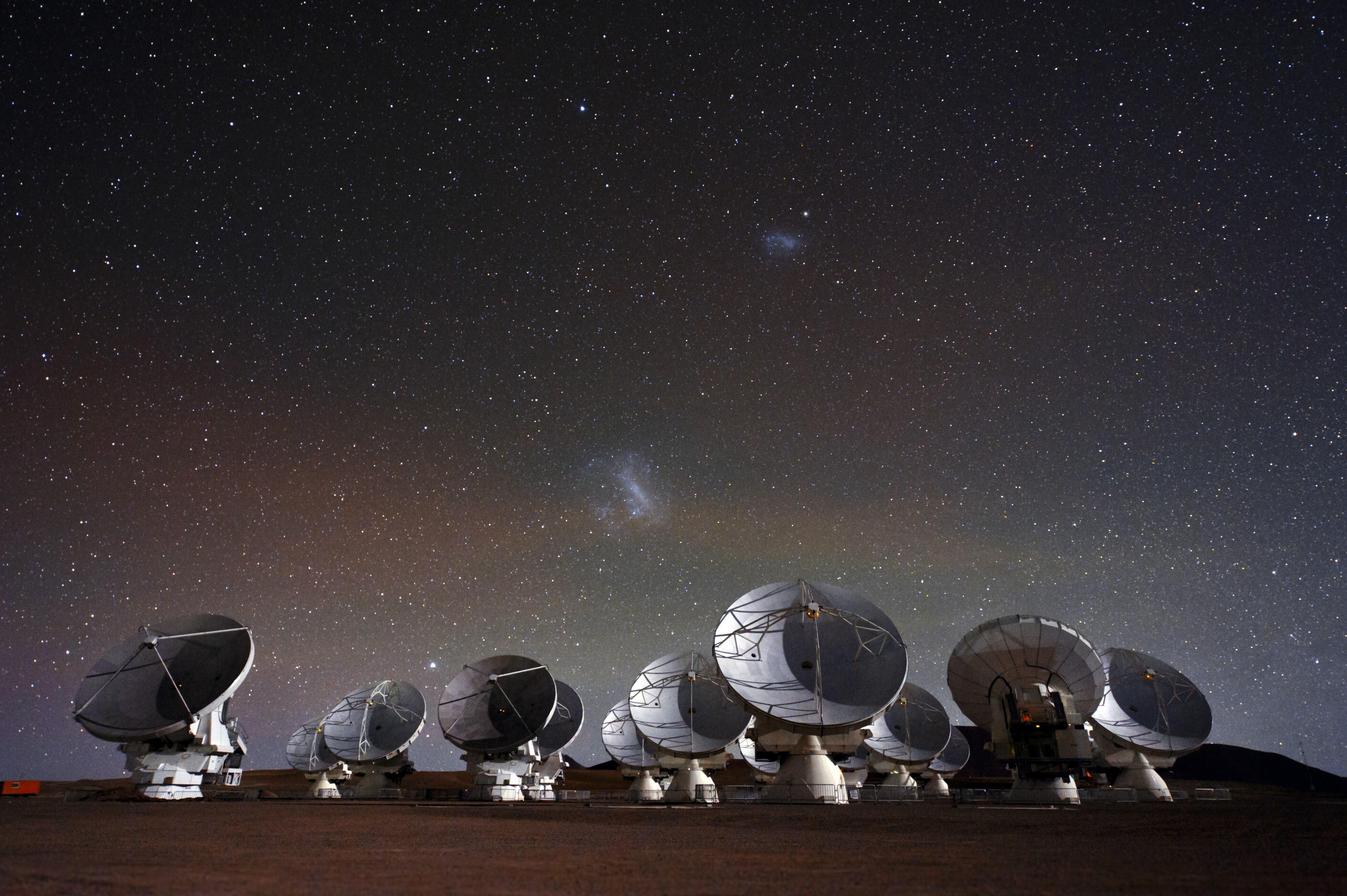 This beautiful image of the Atacama Large Millimeter/submillimeter Array (ALMA), showing the telescope’s antennas under a breathtaking starry night sky, comes from Christoph Malin, an ESO Photo Ambassador. This is a still frame taken from one of his painstakingly created timelapse videos of ALMA, which are also available. Located on the Chajnantor Plateau at an elevation of 5000 metres, ALMA is the world’s most powerful telescope for studying the Universe at submillimetre and millimetre wavelengths. Construction work for ALMA will be completed in 2013, and a total of 66 of these high-precision antennas will be operating on the site. Glowing brightly in the sky, the Large and Small Magellanic Clouds stand out above the antennas. These nearby irregular dwarf galaxies are conspicuous objects in the southern hemisphere, even with the naked eye. These galaxies are both orbiting the Milky Way — our galaxy — and there is evidence that both have been greatly distorted by their interaction with the Milky Way as they travel close to it. ALMA, an international astronomy facility, is a partnership of Europe, North America and East Asia in cooperation with the Republic of Chile. ALMA construction and operations are led on behalf of Europe by ESO, on behalf of North America by the National Radio Astronomy Observatory (NRAO), and on behalf of East Asia by the National Astronomical Observatory of Japan (NAOJ). The Joint ALMA Observatory (JAO) provides the unified leadership and management of the construction, commissioning and operation of ALMA.